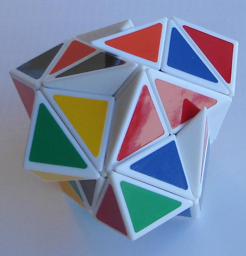 Helicopter cube, jumbled